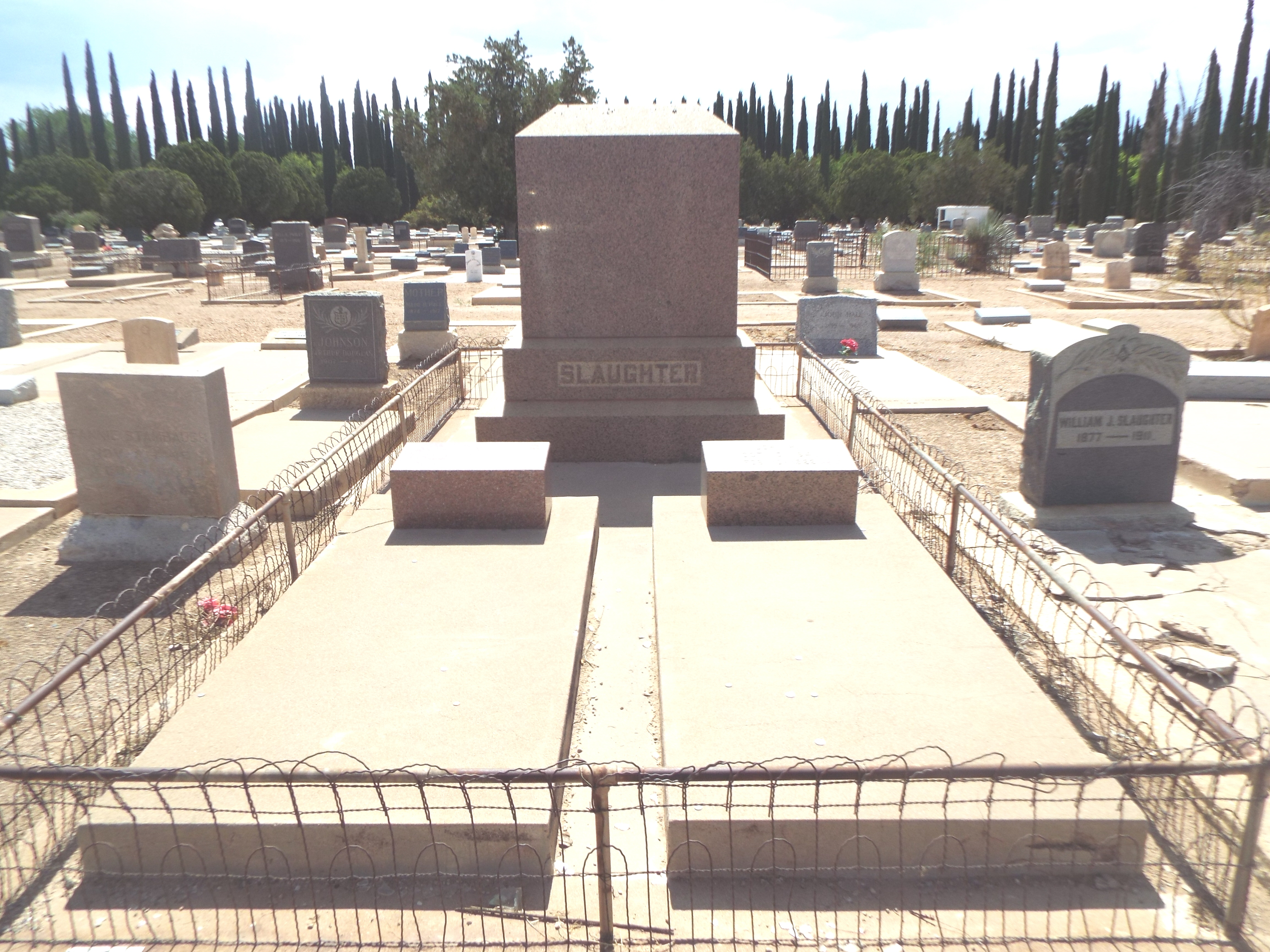 Calvary Cemetery- Grave of John Horton Slaughter and his wife Cora Viola Slaughter